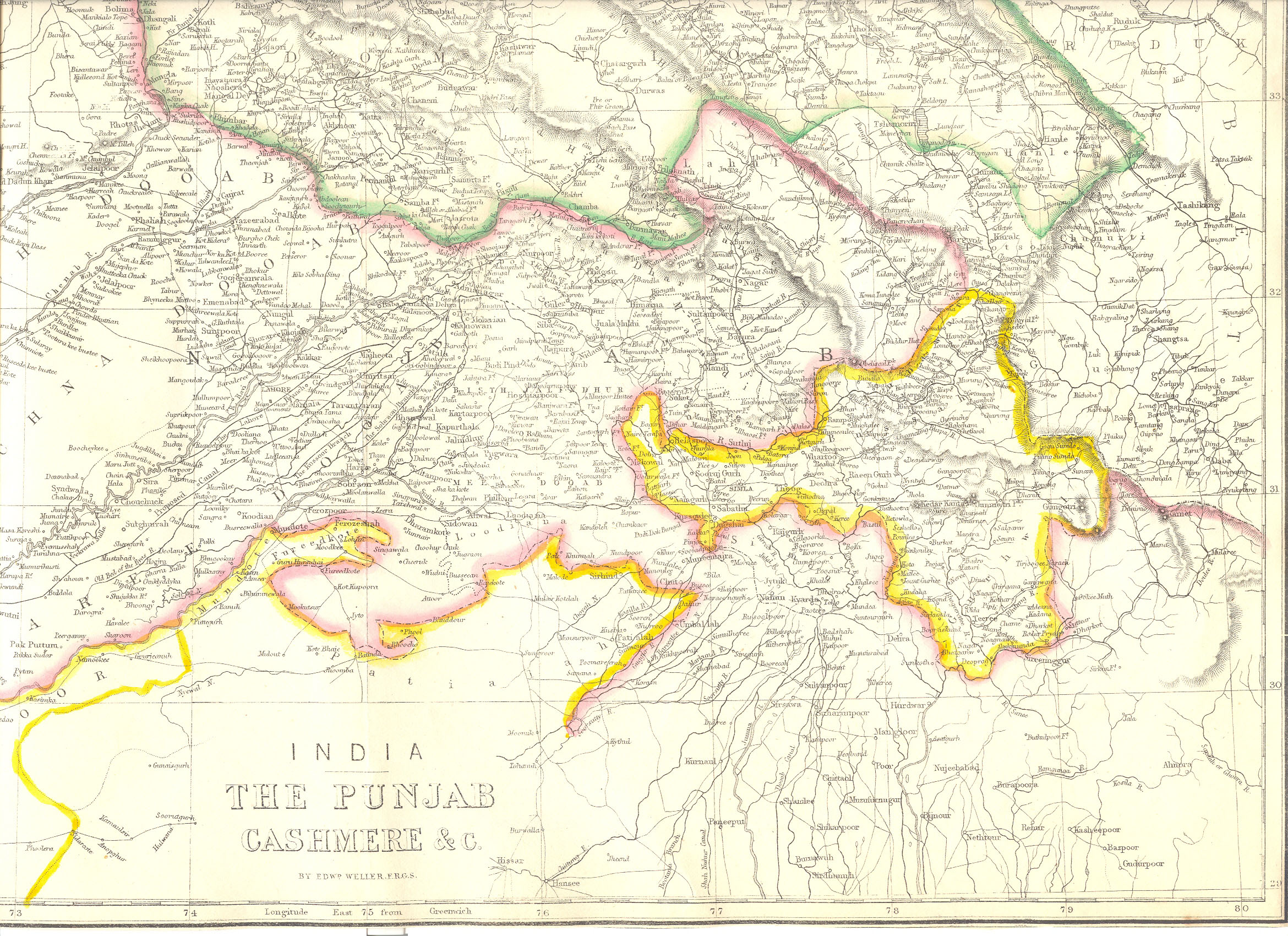 Map created by Edward Weller for Weekly Dispatch